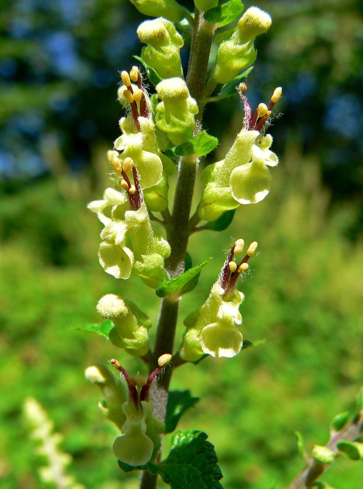 Photo of Teucrium scorodonia 'Crispum' at VanDusen Botanical Garden